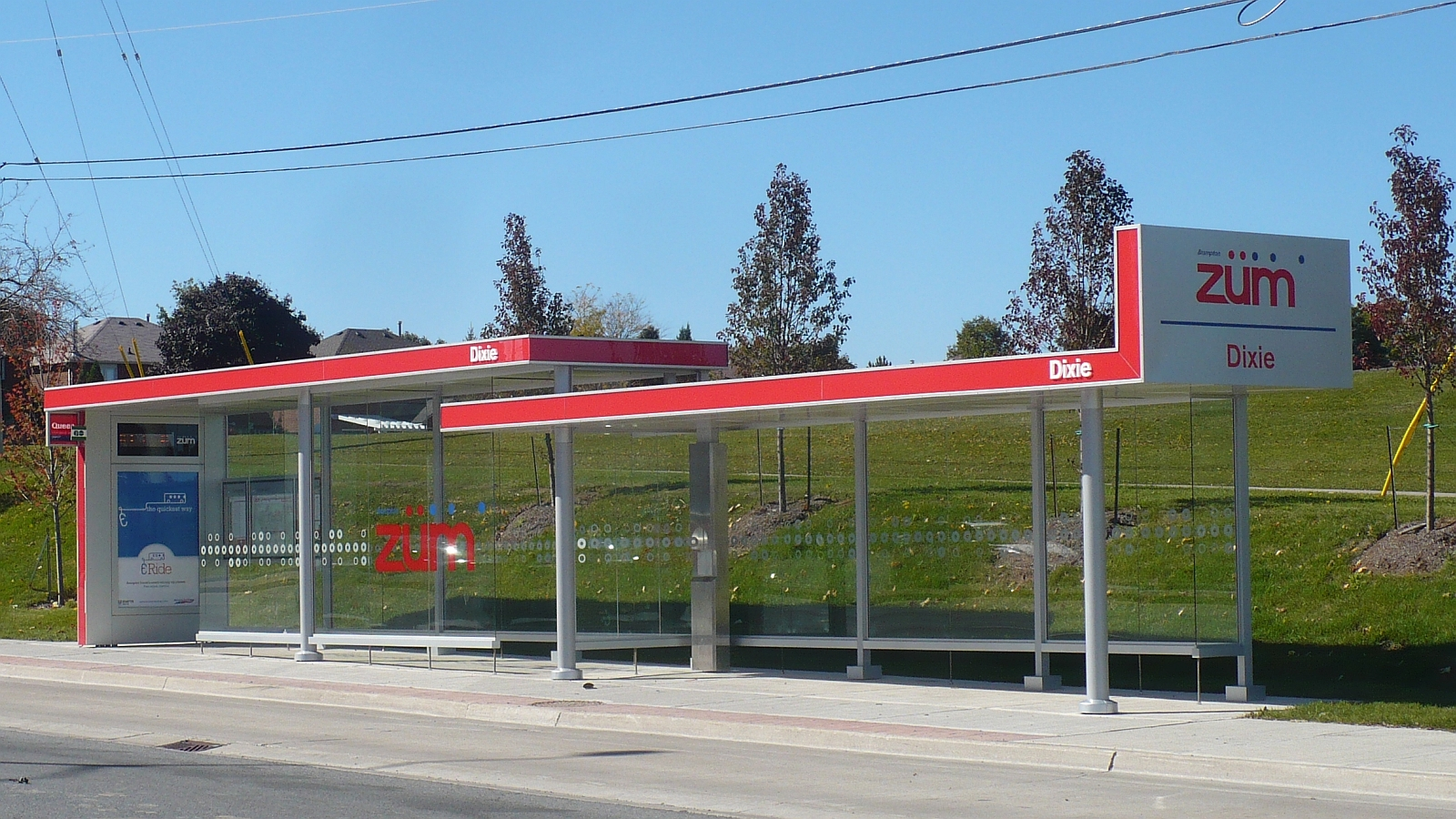 Züm Queen line bus rapid transit station stop in Brampton, Ontario